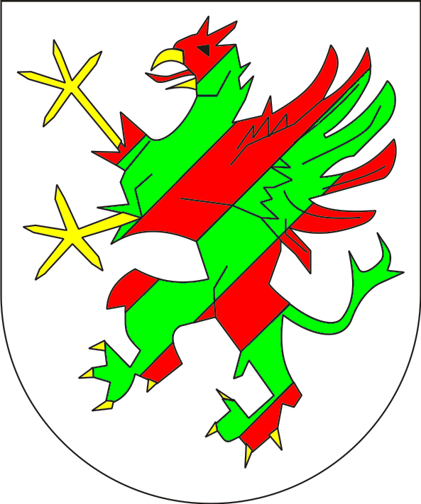 coats of arms of the duchy of the Wenden in the coats of arms of Pommerania